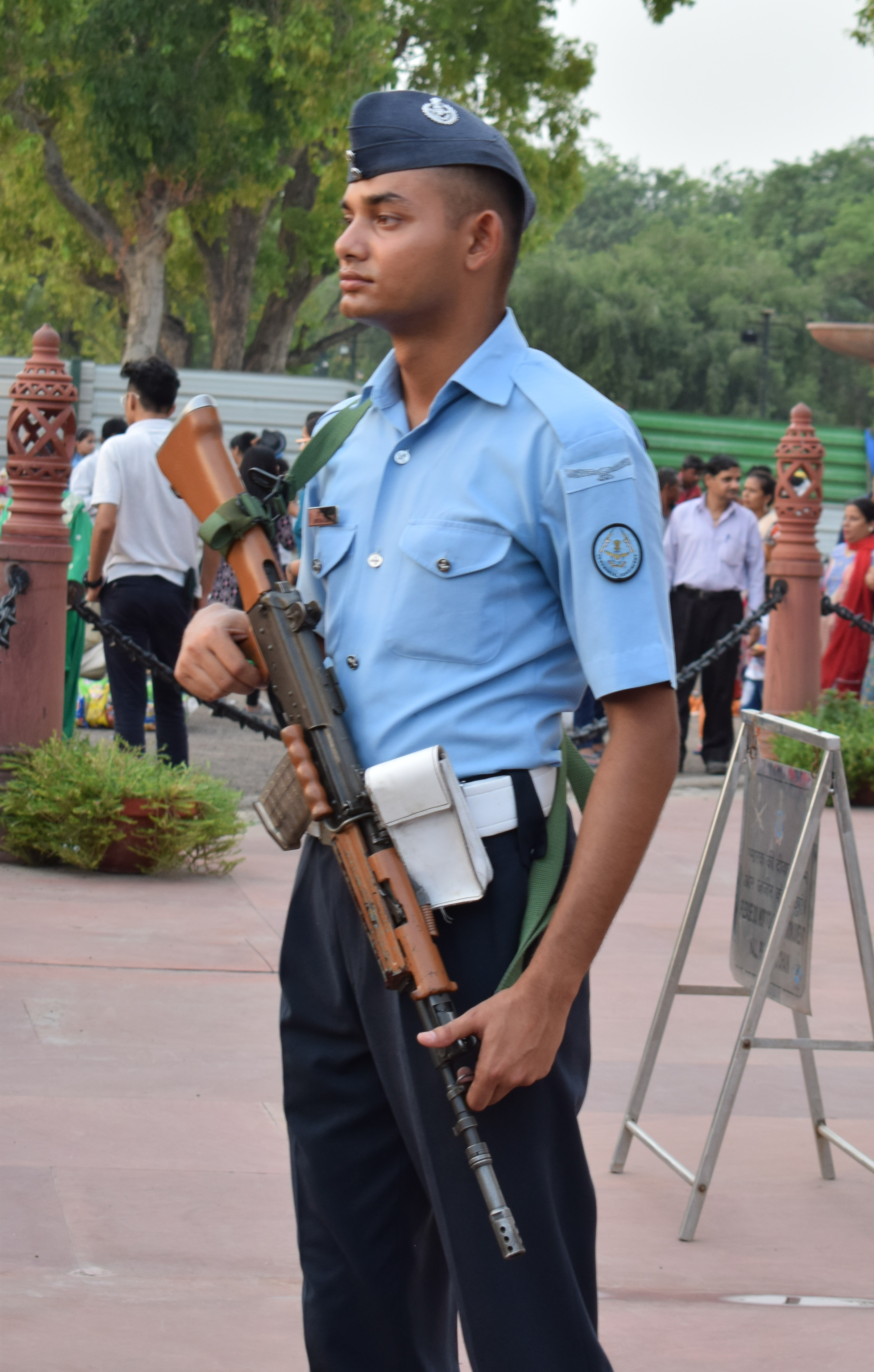 A Soldier (Jawan) of the Indian Air Force with his uniform and INSAS rifle standing guard at the India Gate memorial at New Delhi.